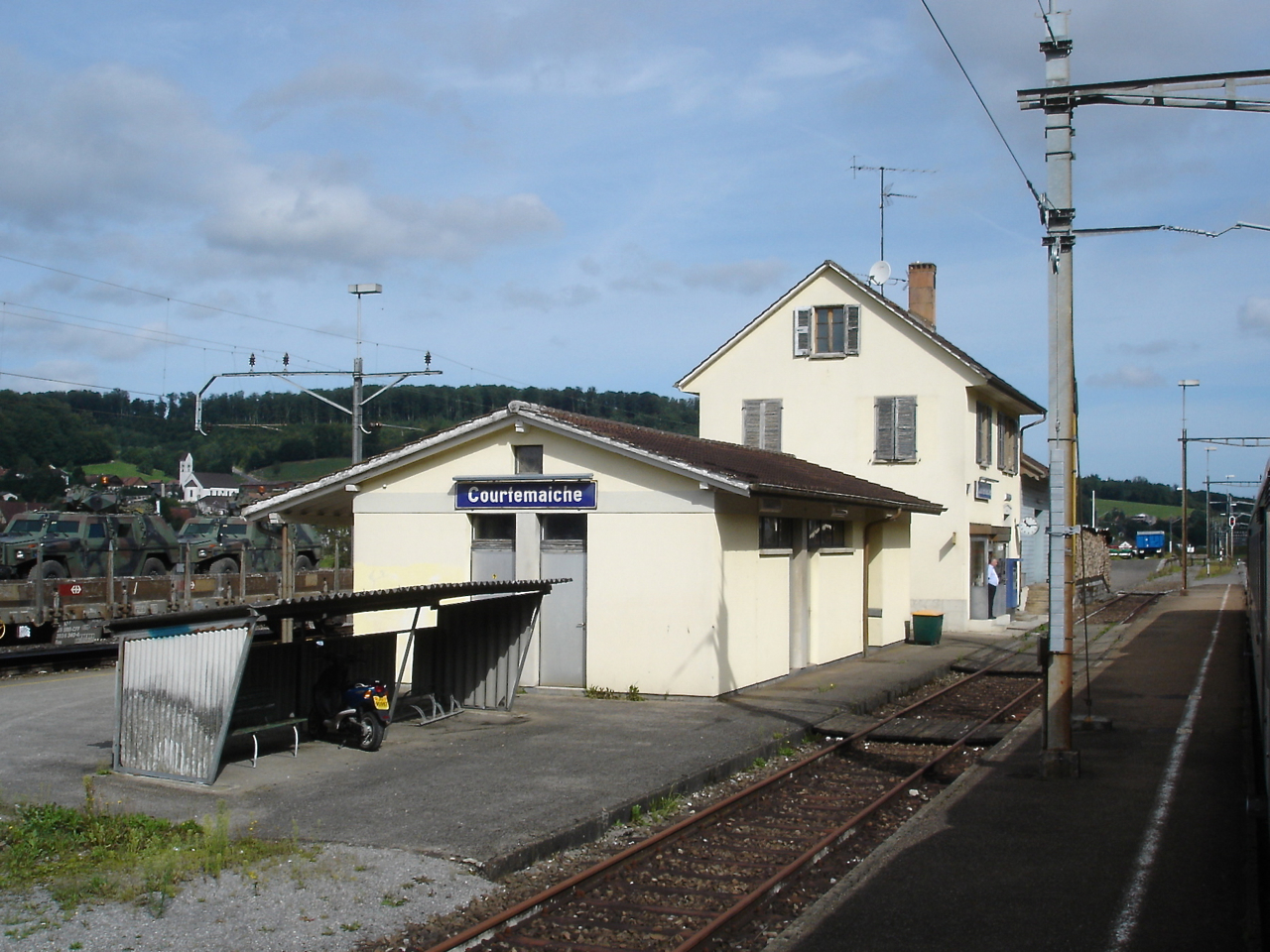 Courtemaîche train station.